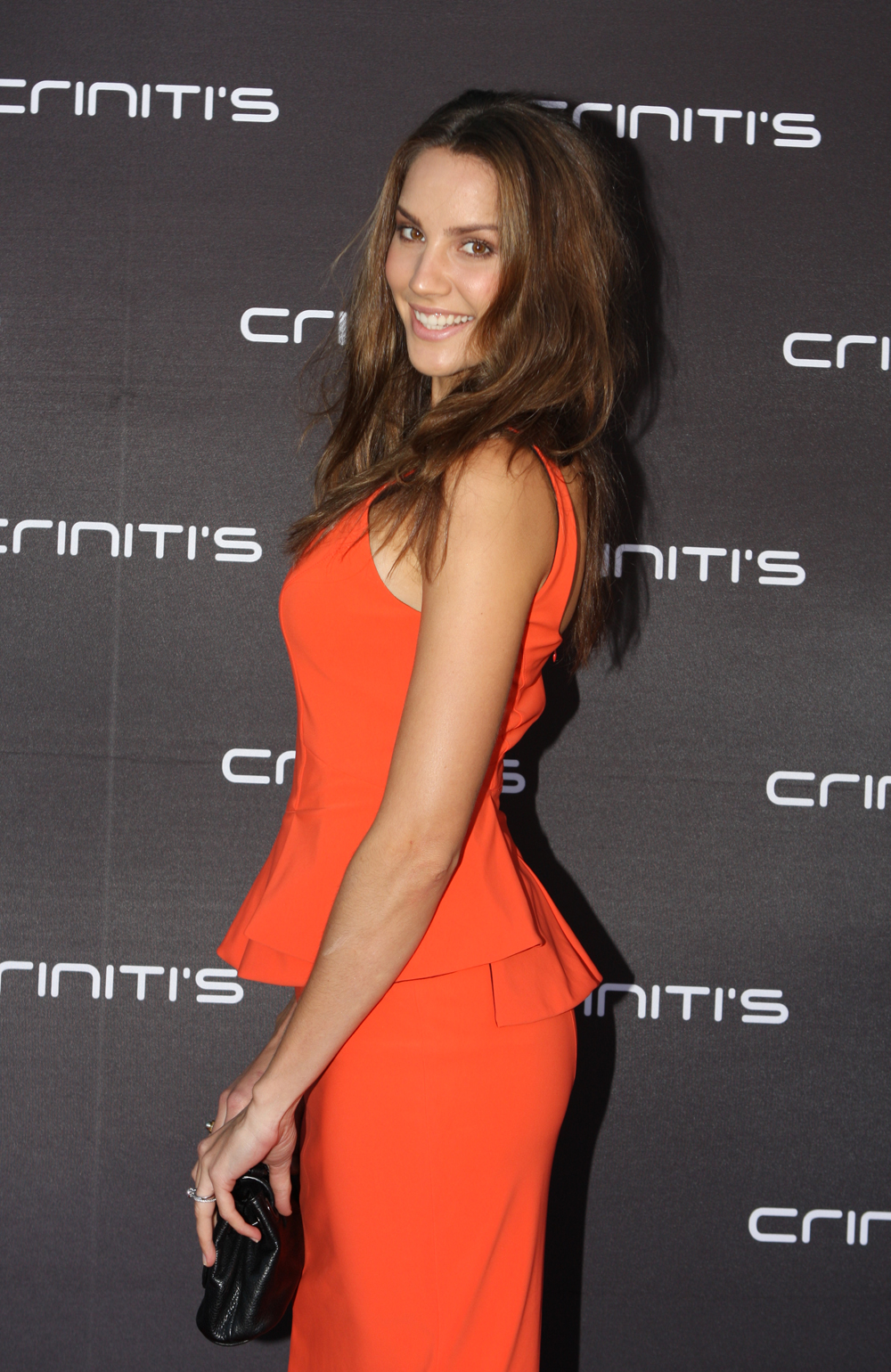 Criniti's celebrated their tenth birthday and rolled out the red carpet tonight. Celebrity guests were treated to their ten most popular dishes. Media... Walking the red carpet and celebrating Criniti's milestone birthday will be Australian television personality Charlotte Dawson, Australian singer Ricki Lee Coulter, Australian model Rachael Finch, former rugby league player Jason Stevens, Roosters star Anthony Minichiello, as well as Home & Away stars Dan Ewing, Rhiannon Fish and Lisa Gornley, The Living Room's Barry Du Bois and Miguel Maestre, The Morning Show's Lizzy Lovette, MTV's Keiynan Lonsdale, Jason and Beck Stevens from Sydney Weekender, Michelle and Martin Walsh from Chadwicks, as well as player from Sydney FC, Manly Sea Eagles and the Roosters. The celebrations will continue as one lucky person will win an all-expenses paid trip to Rome worth over $10,000, plus a three litre bottle of Veuve Clicquot. 2012 X Factor winner, Samantha Jade, will be entertaining guests on the night, with an intimate performance of her number one hit single What You've Done to Me. Celebs: Charlotte Dawson, Ricki Lee Coulter, Rachael Finch, Anthony Minichiello, Dan Ewing and more. Websites Criniti's Eva Rinaldi Photography Eva Rinaldi Photography Flickr